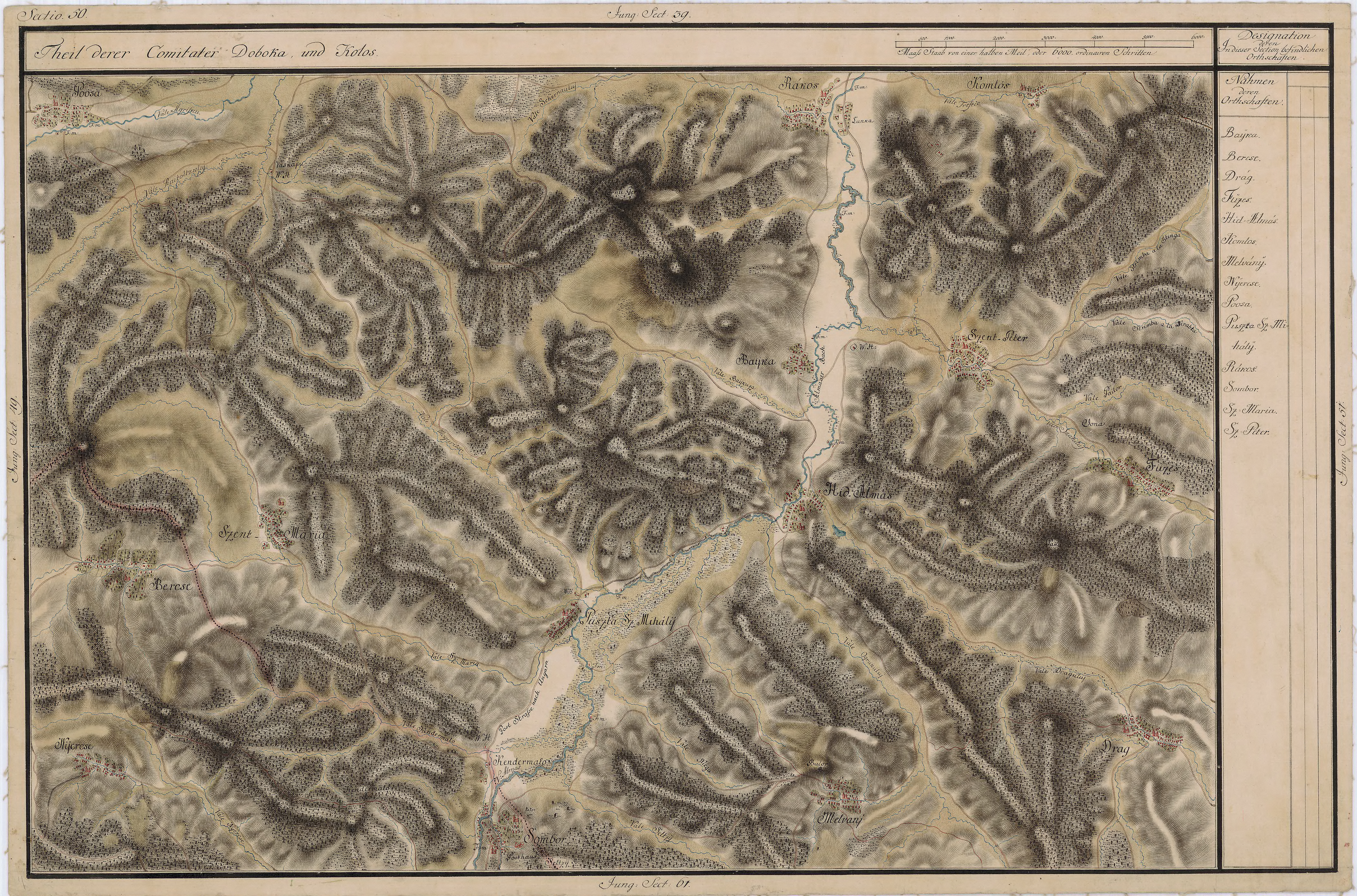 Grand Duchy of Transylvania, 1769-1773. Josephinische Landaufnahme pg.050